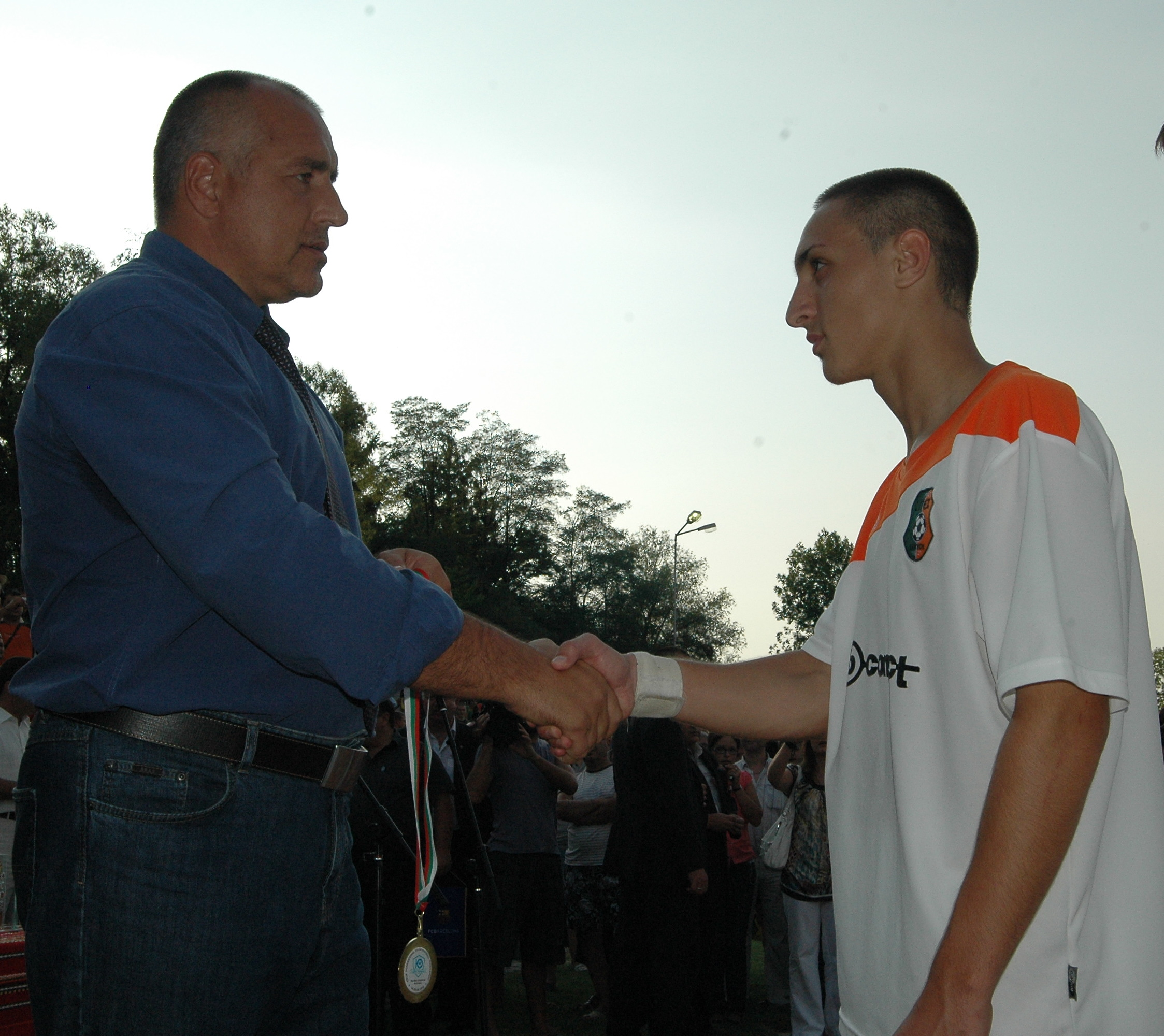 Martin Simeonov